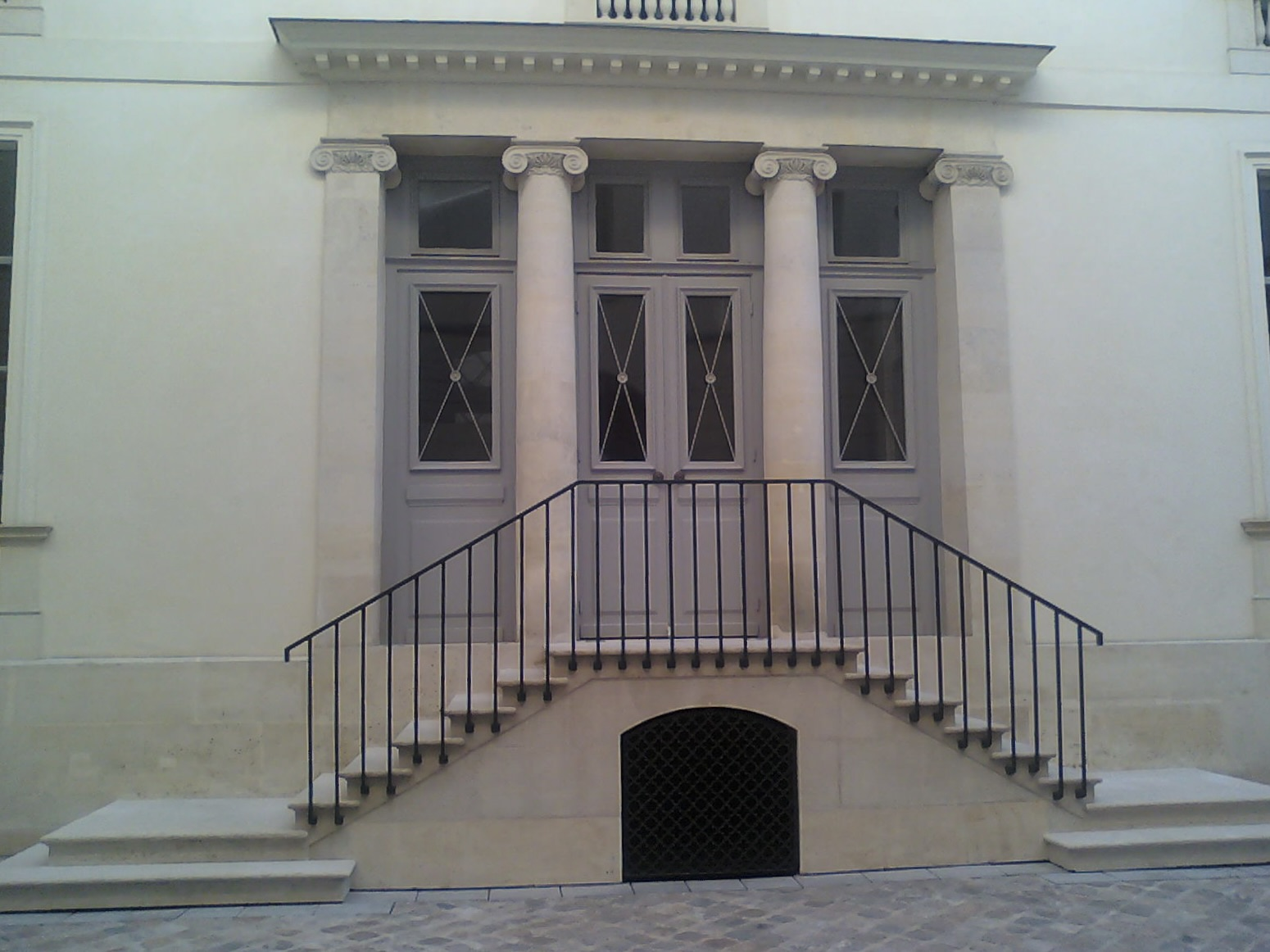 Main entrance remaining from the hotel of general Moreau (1763-1813).